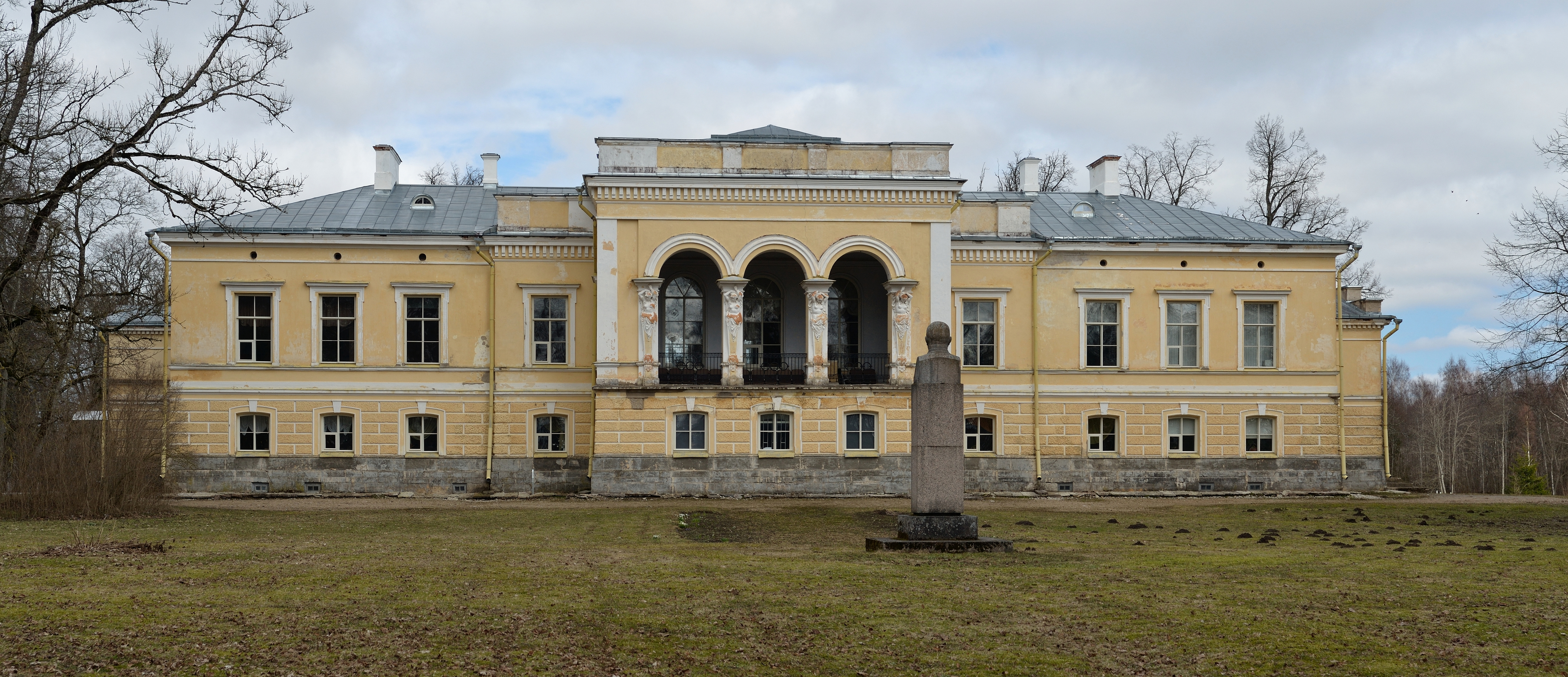 Muuga manor main building